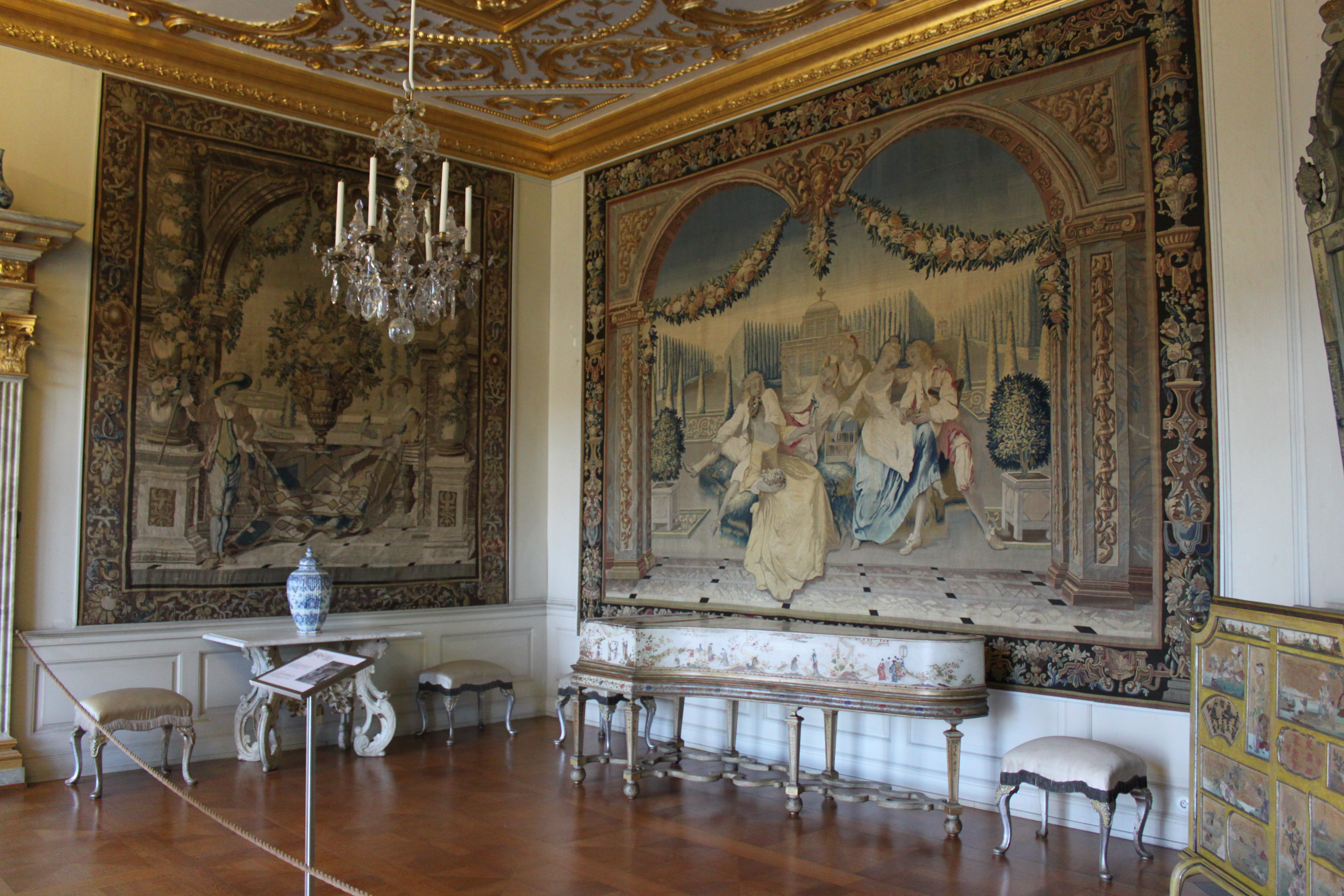 Charlottenburg Palace, Berlin: Antechamber (Room 103)